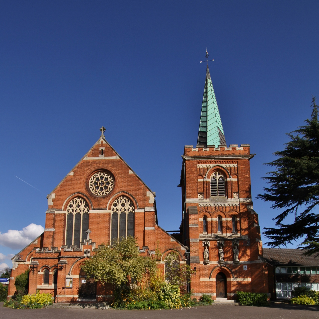 St Peter's parish church, Staines, Middlesex (now Surrey), seen from the west